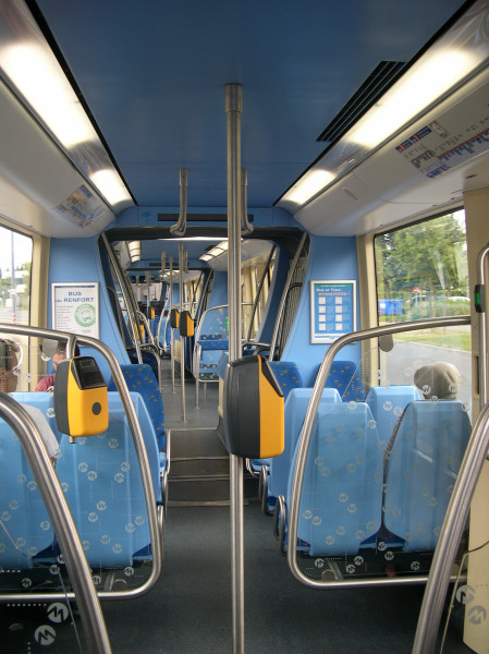 Inside view of a pneus tramway in Caen, France